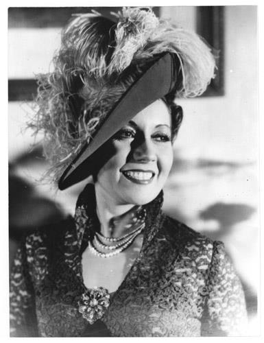 Carmen Lamas- actriz y vedette